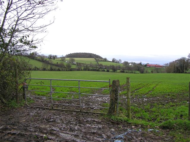 Ballygittle Townland A nice view beyond the gate.